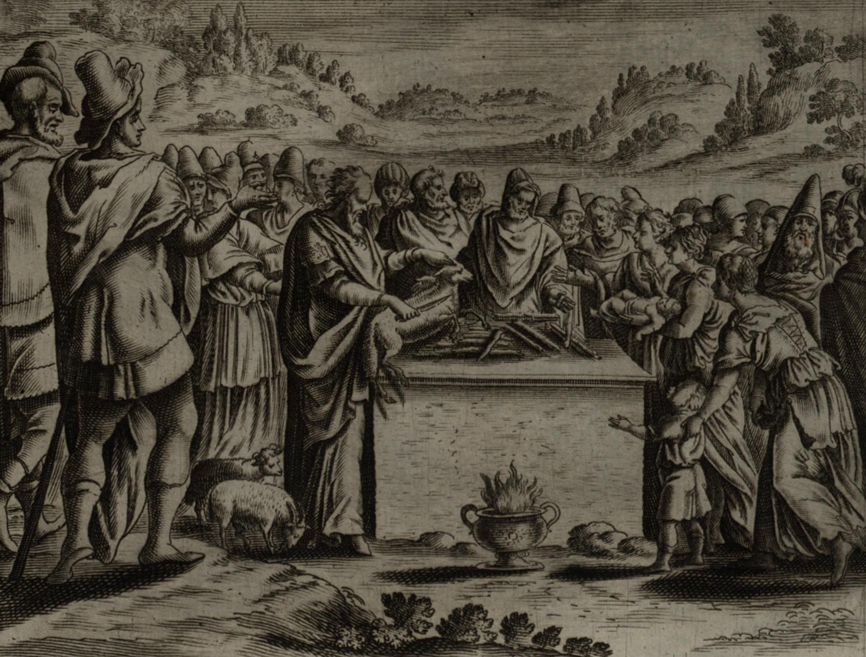 Passover, engraving published 1670 in "La Saincte Bible, Contenant le Vieil and la Nouveau Testament, Enrichie de plusieurs belles figures/Sacra Biblia, nouo et vetere testamento constantia eximiis que sculpturis et imaginibus illustrata, De Limprimerie de Gerard Jollain"